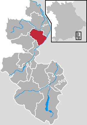 Locator maps of municipalities in Bavaria - District Berchtesgadener Land